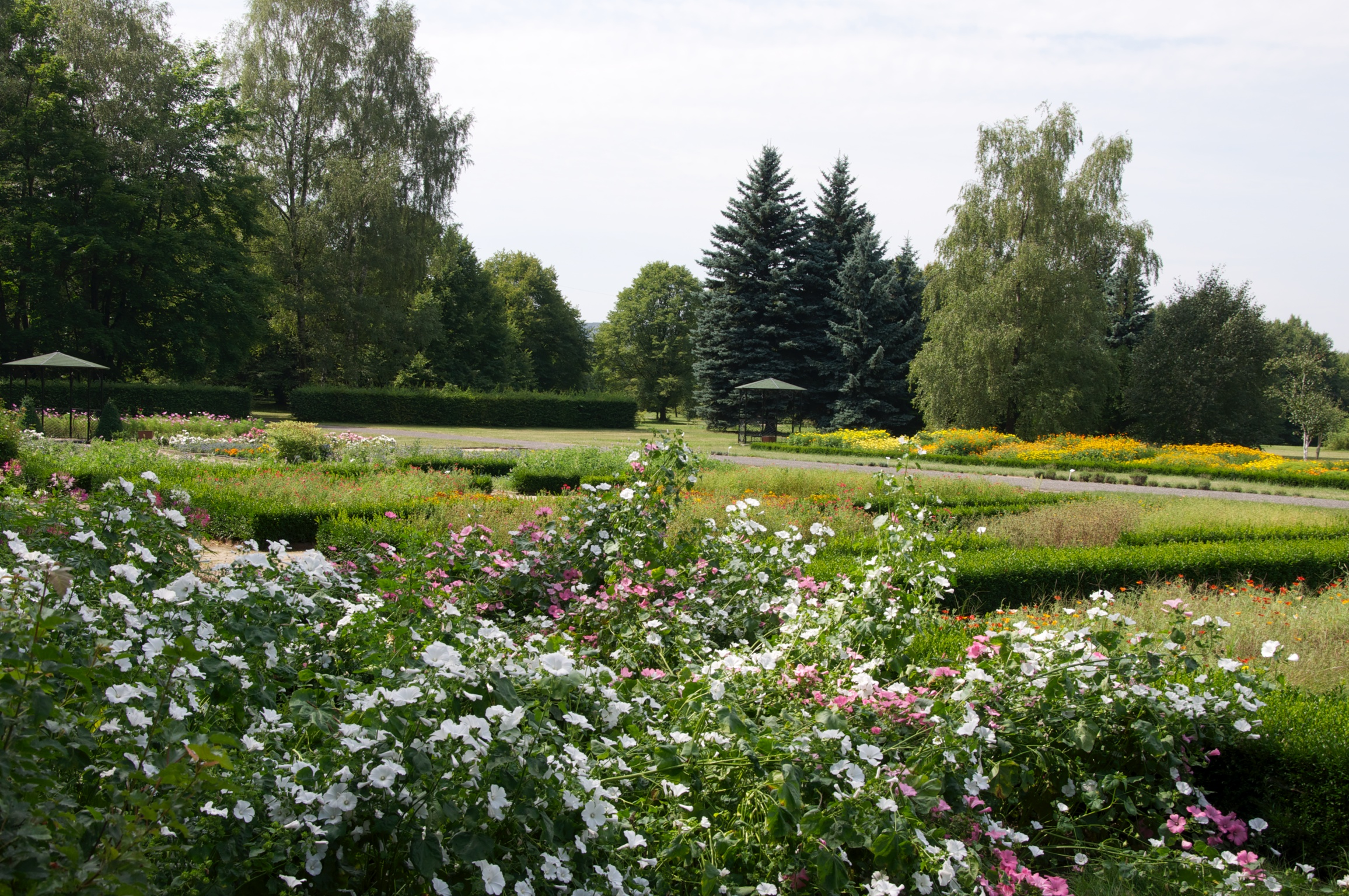 Botanical garden in Łódź